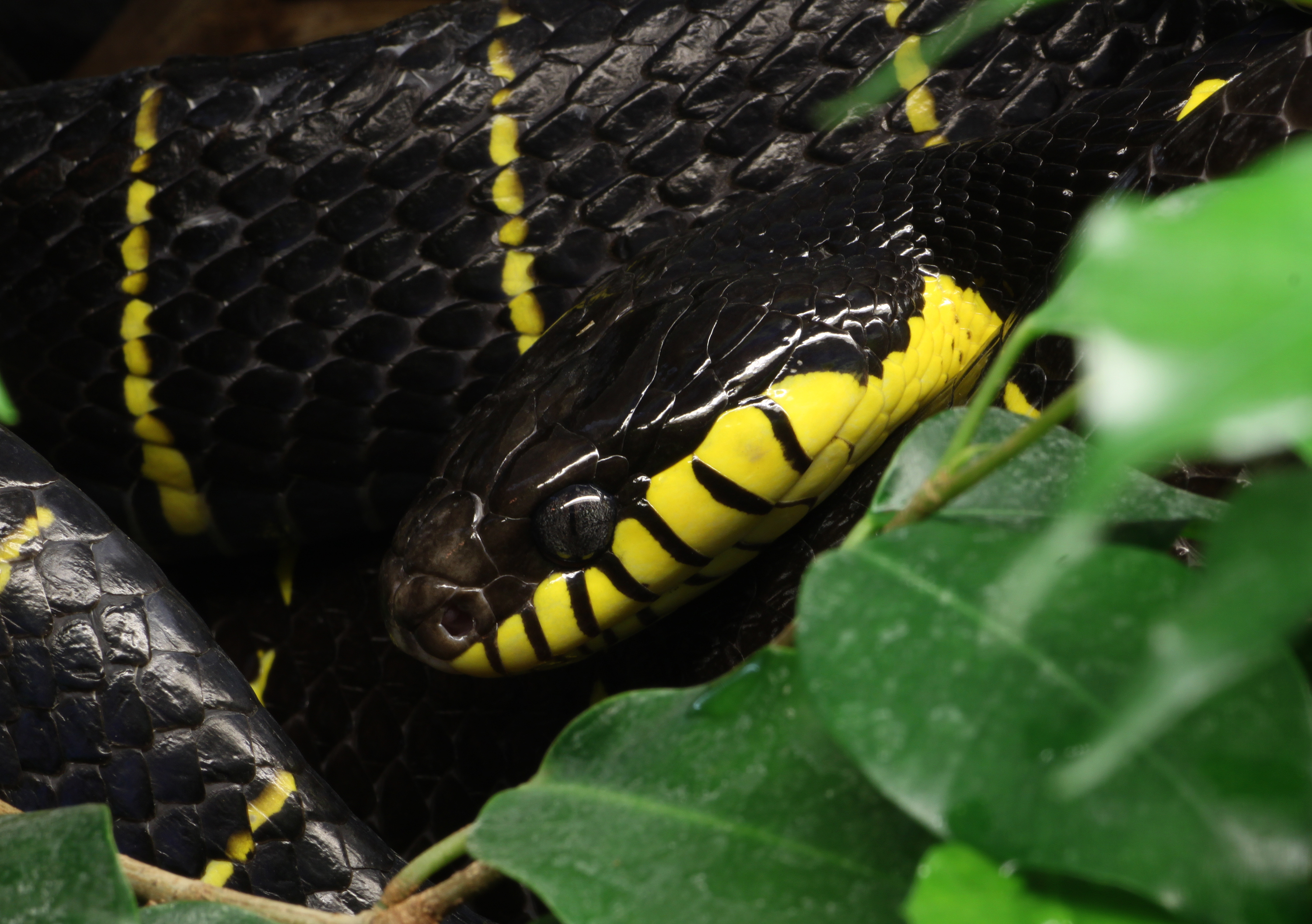 Gold-Ringed Cat Snake or Mangrove Snake Boiga dendrophila, Family: Colubridae, Location: Germany, Stuttgart, Zoological Garden